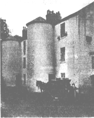 Birthplace of David Livingstone in Blantyre, Scotland. Cropped from the newspaper shown in the link above. Lightened and contrast adjusted using GIMP.